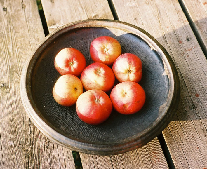 Apples of the Swedish type "Tersmeden"